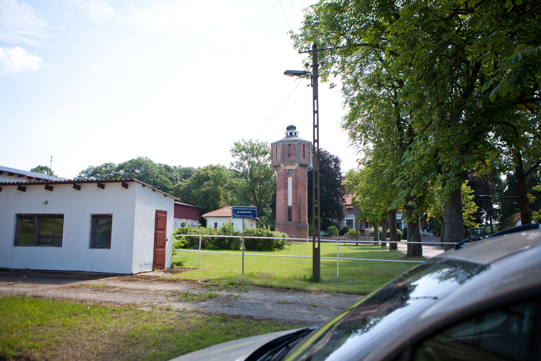 stork nest in Poland